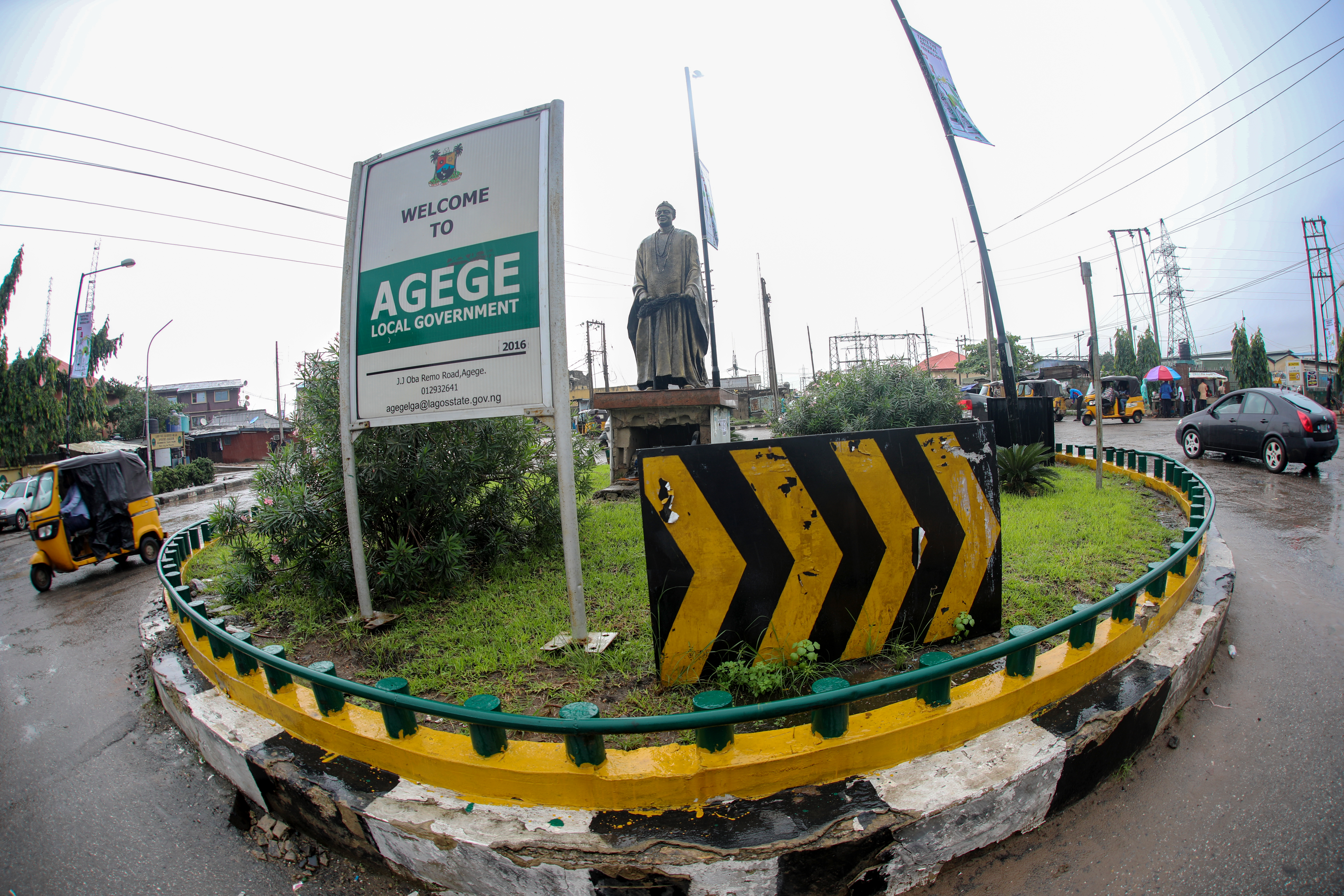 agege local, ogba town government